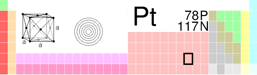 Image by Daniel Mayer or GreatPatton and released under terms of the GNU FDL